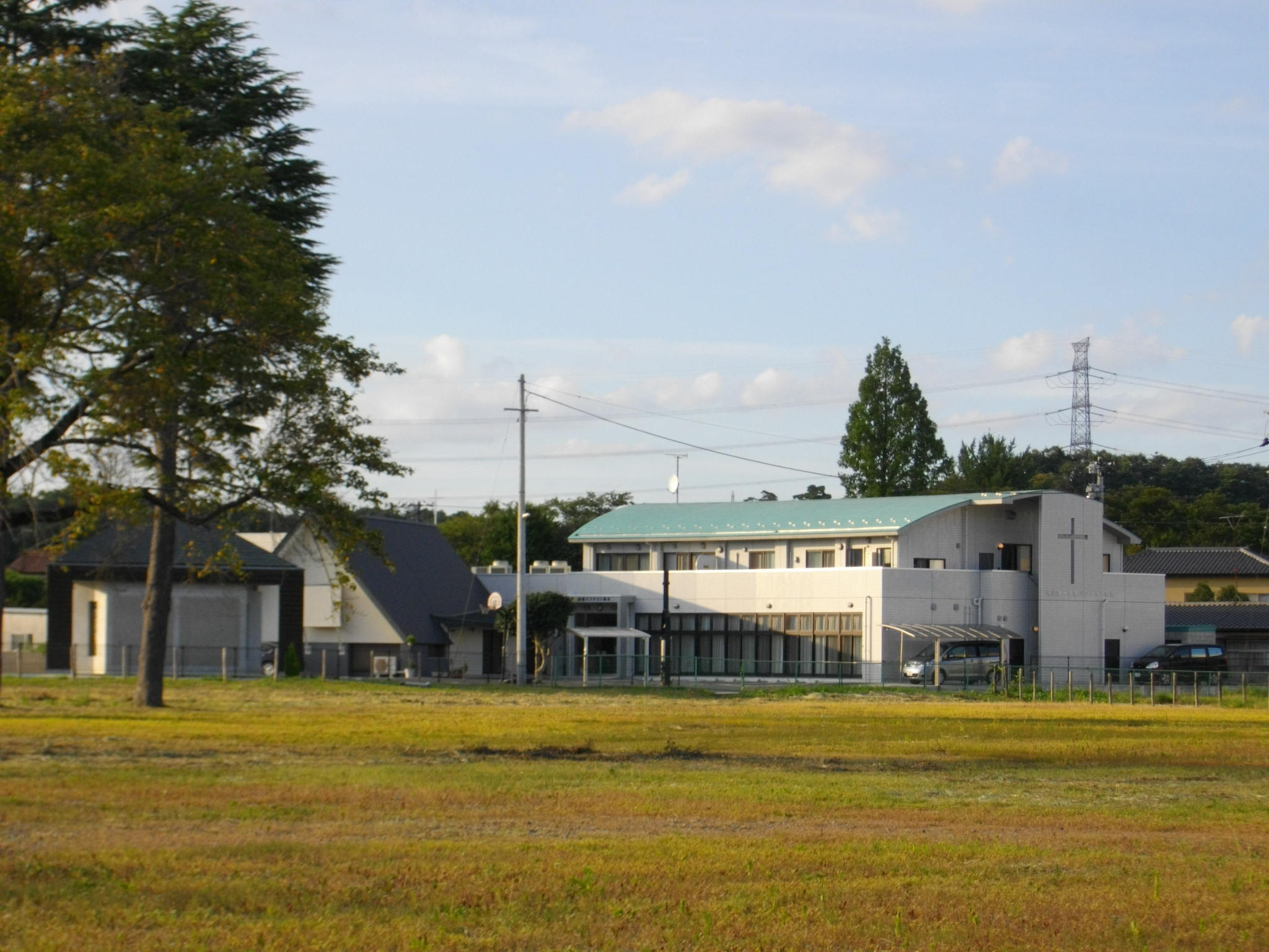 Fukushima First Biblical Buptist Church Ōno-chapel (Location:Ōkuma-town Futaba-gun Fukushima-pref JAPAN)